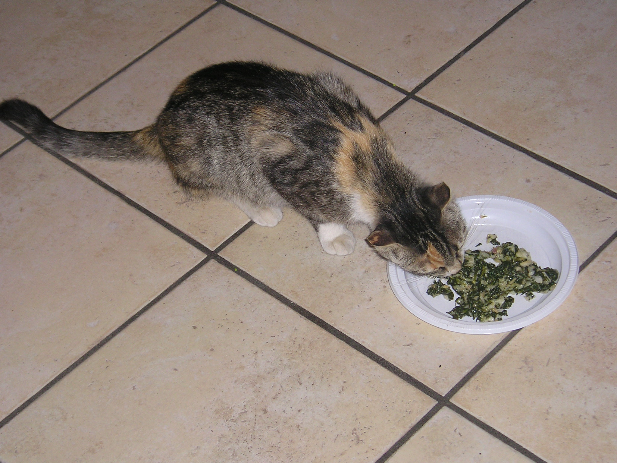 My cat when is eating spinach (popeye!)